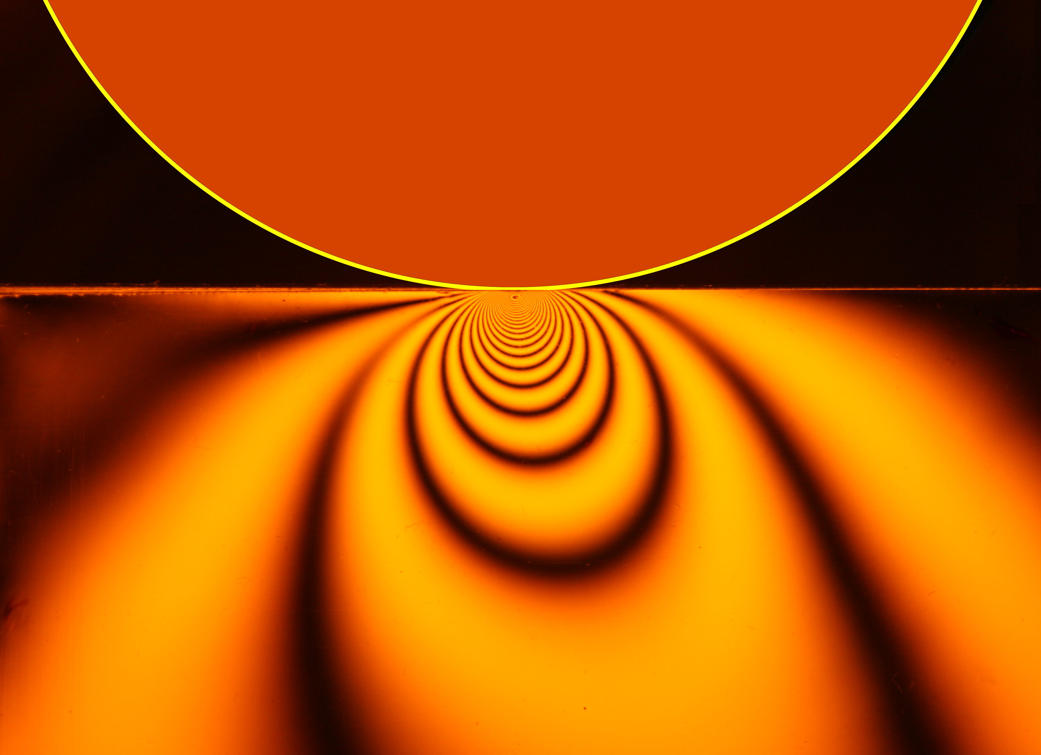 Stresses produced by a contact with a combined normal and tangential load made visible by polarization optics